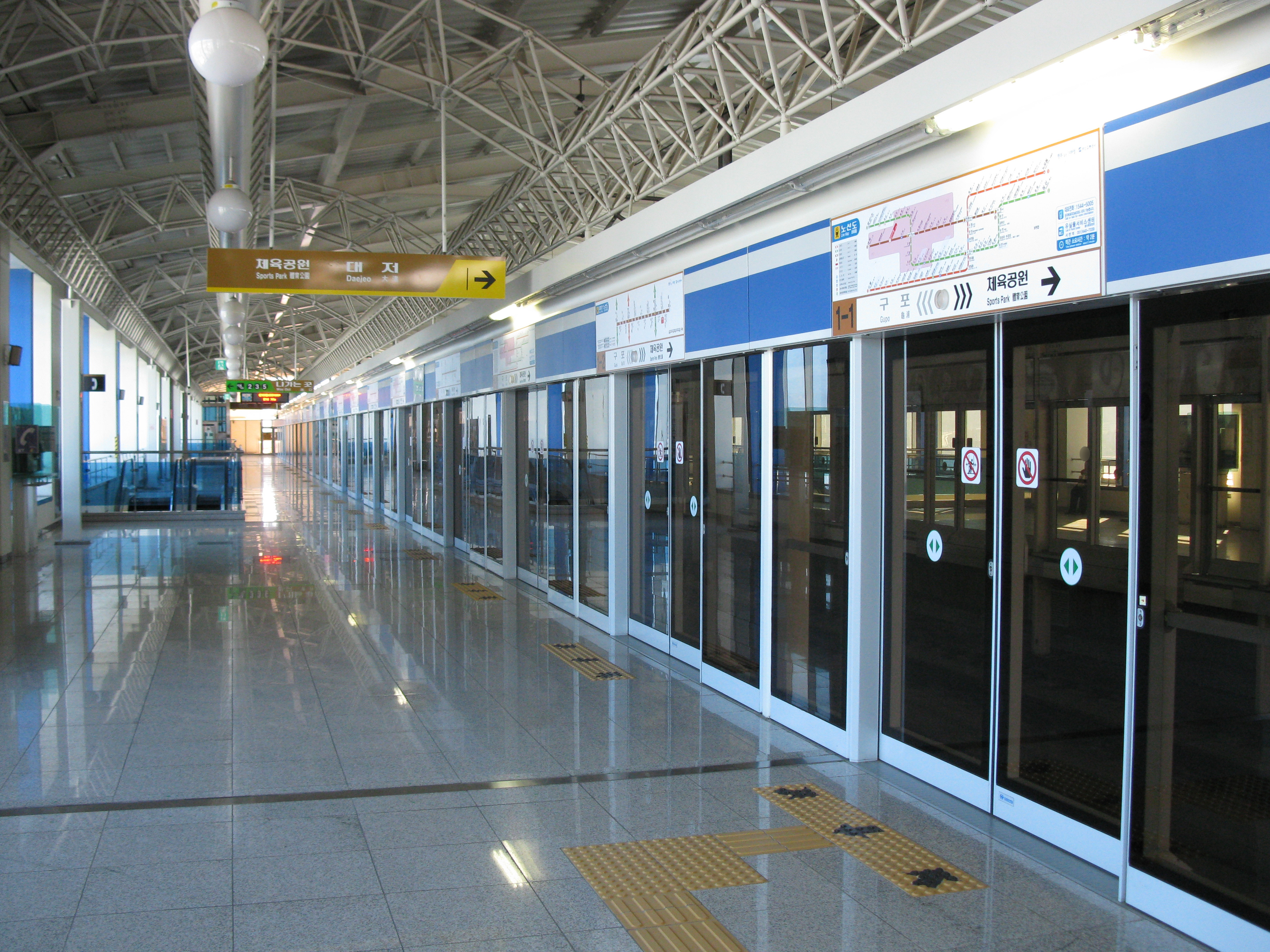 A platform of Gangseo-gu Office Station, Busan Subway Line 3